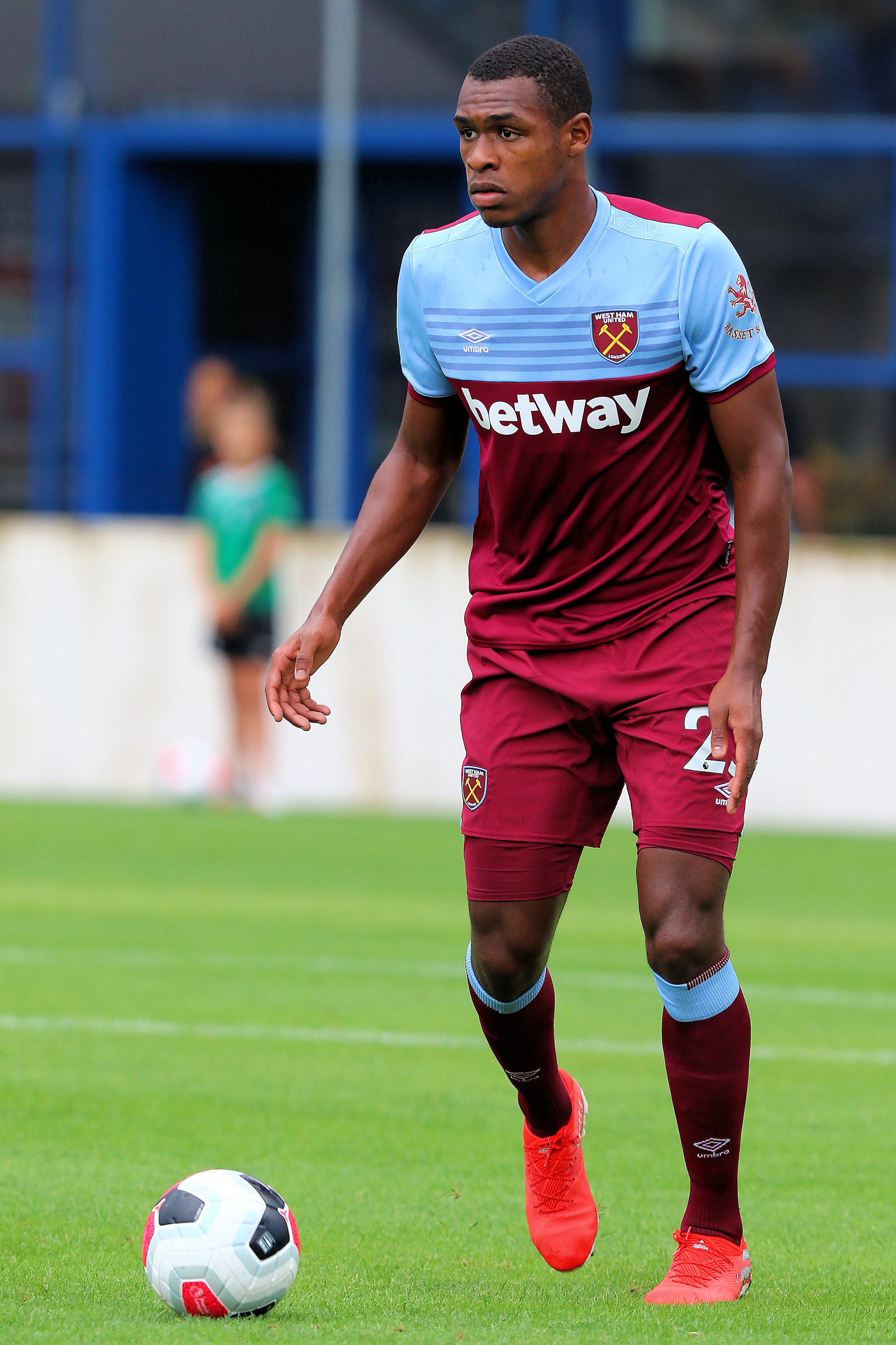 Friendly match Hertha BSC (blue-white shirts) vs. West Ham United (red-blue shirts) at 31-07-2019 3-5 (3-2) in the Sonnenseestadium in Ritzing. – The photo shows Issa Diop (West Ham United).